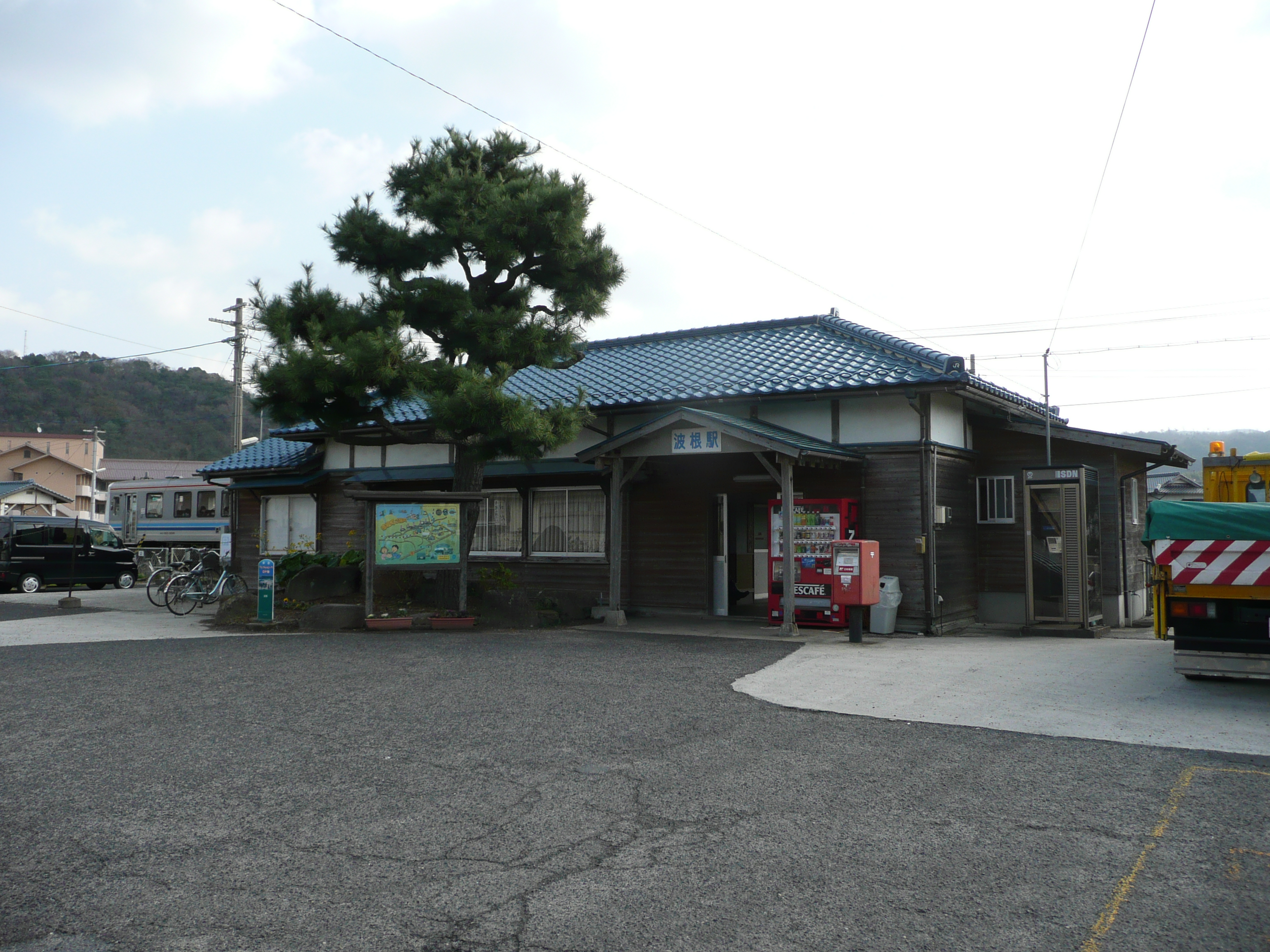 波根駅舎